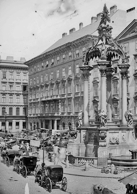 Palais Sina, Hoher Markt 8, 1010 Vienna